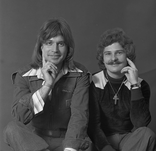 Portrait of Waterloo & Robinson at the day of the Eurovision Song Contest 1976